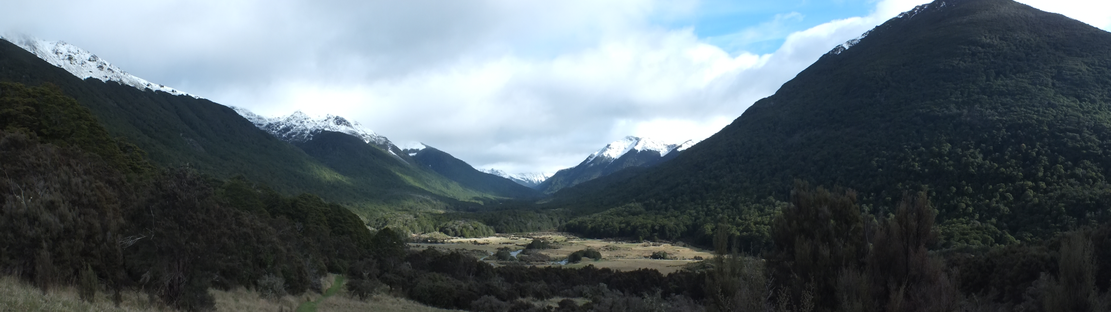 View of Cobb Valley in Kahurangi National Park